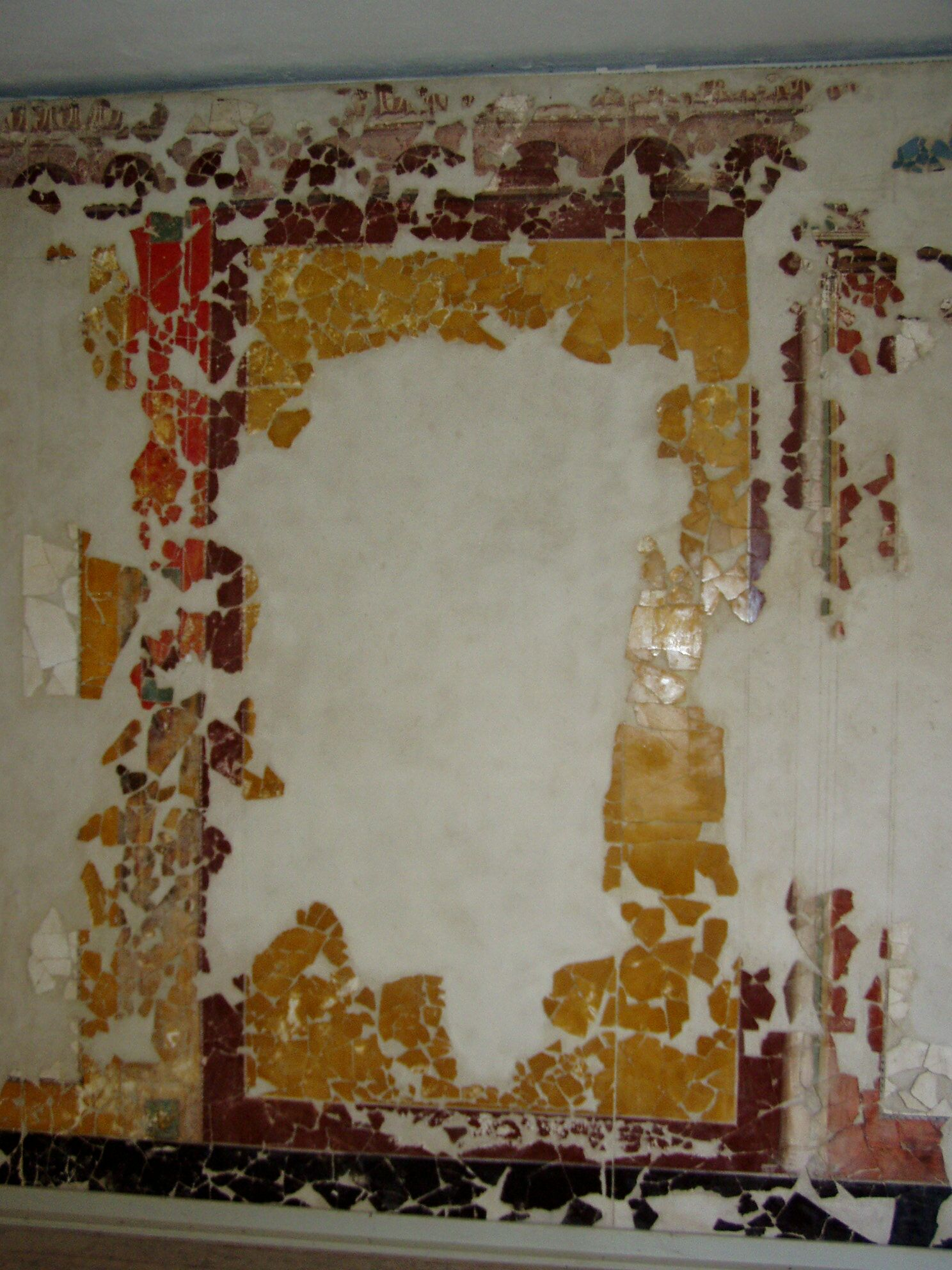 Stadt am Magdalensberg/City on the Magdalensberg, wall paintings